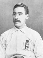 Judging by his age in the photo, it was probably taken before 1900, and the photographer is presumably unknown.